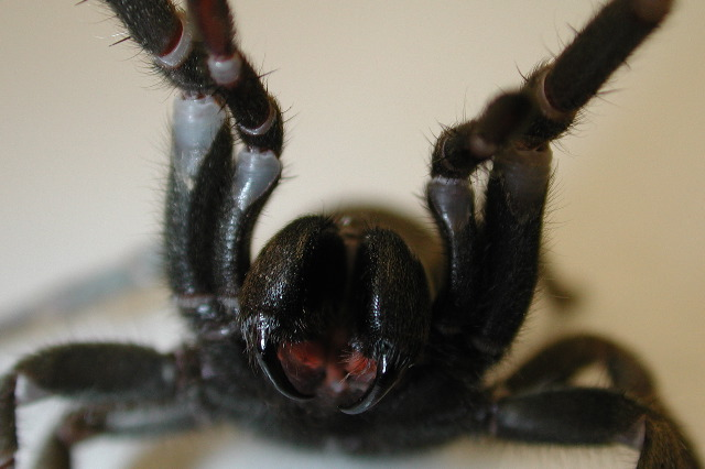 Calisoga sp. frontal view, from northern California.